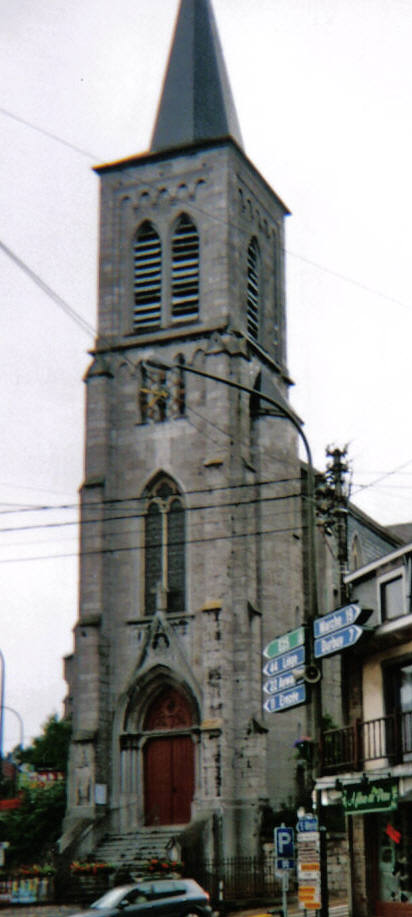 Village church of Barvaux-sur-Ourthe (Belgium).